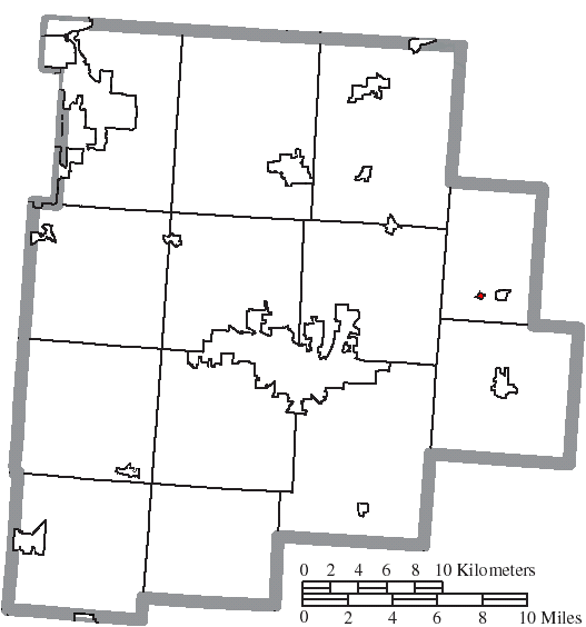 Map of the municipal and township boundaries of Fairfield County, Ohio, United States, as of the 2000 census, with the location of the village of West Rushville highlighted. Township borders are shown only in unincorporated areas in order to differentiate incorporated and unincorporated areas more clearly.